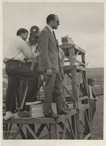 Leopoldo Torre Nilsson on set of El Hijo del Crack (1953) (Argentina)